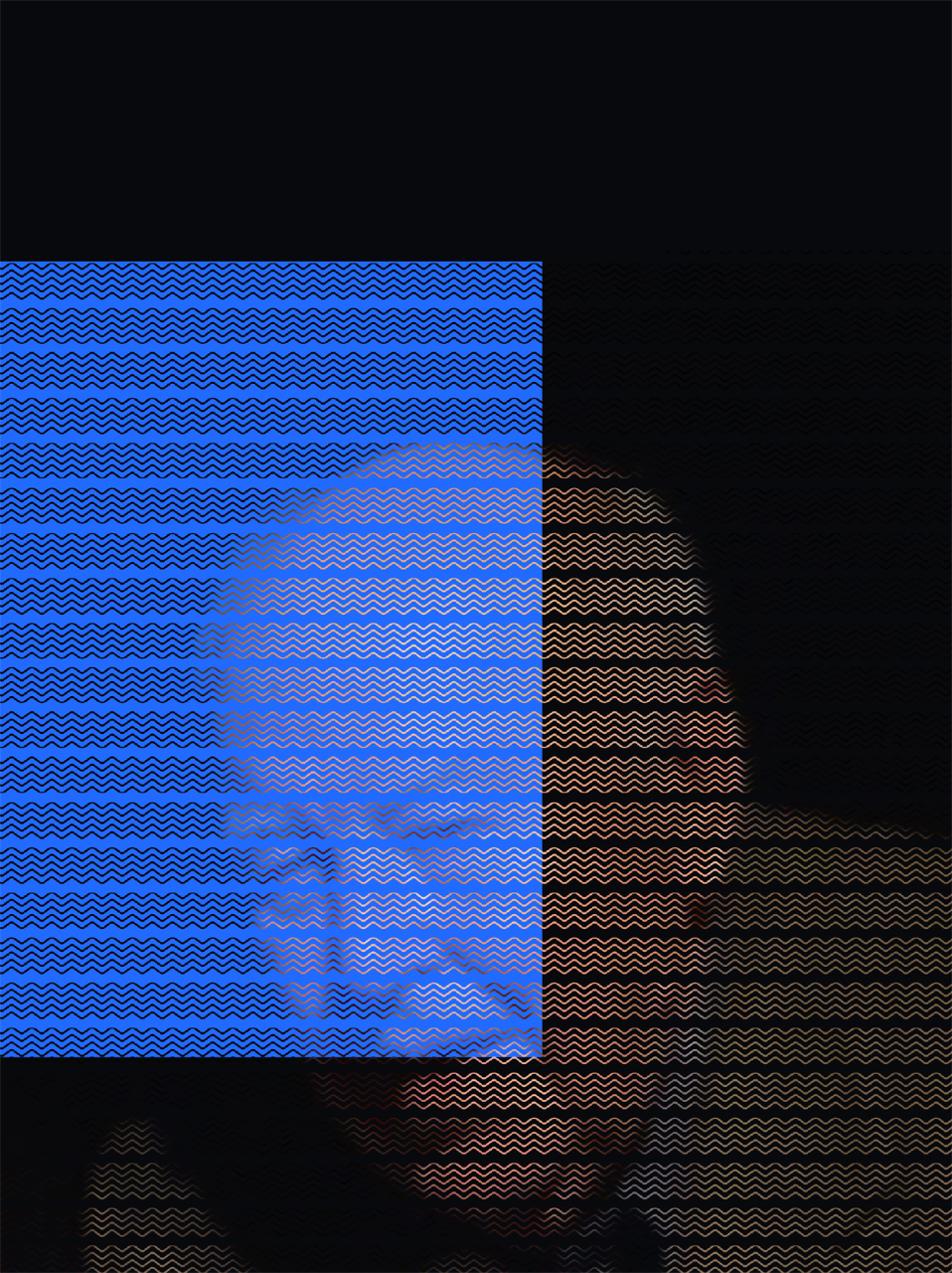 Portrait of Yuri Denisyuk